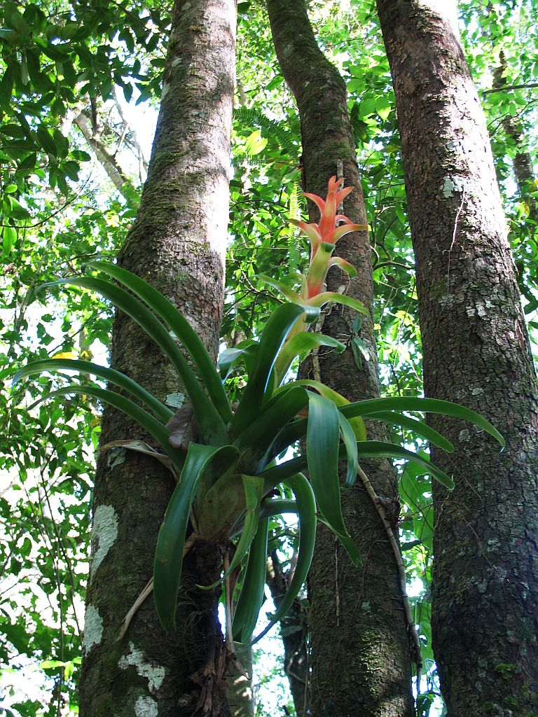 Tillandsia candelifera in habitat in El Salvador, Dept. Santa Ana, Parque Nacional Montecristo; 1841m.